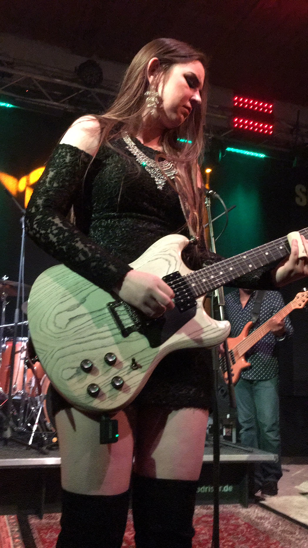 Ally Venable in concert in Lichtentanne with 'Blues Caravan 2019', February 3, 2019.